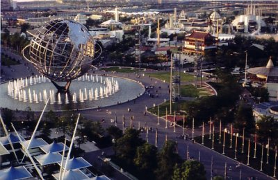 Photograph of the New York World's Fair 1964/1965 as viewed from the Observation Towers of the New York State Pavilion. By Max Mordecai (deceased). Summer, 1964. Placed in GFDL for Wikipedia by his son, Glen Mordecai, July 19, 2005. Image appears on the internet website